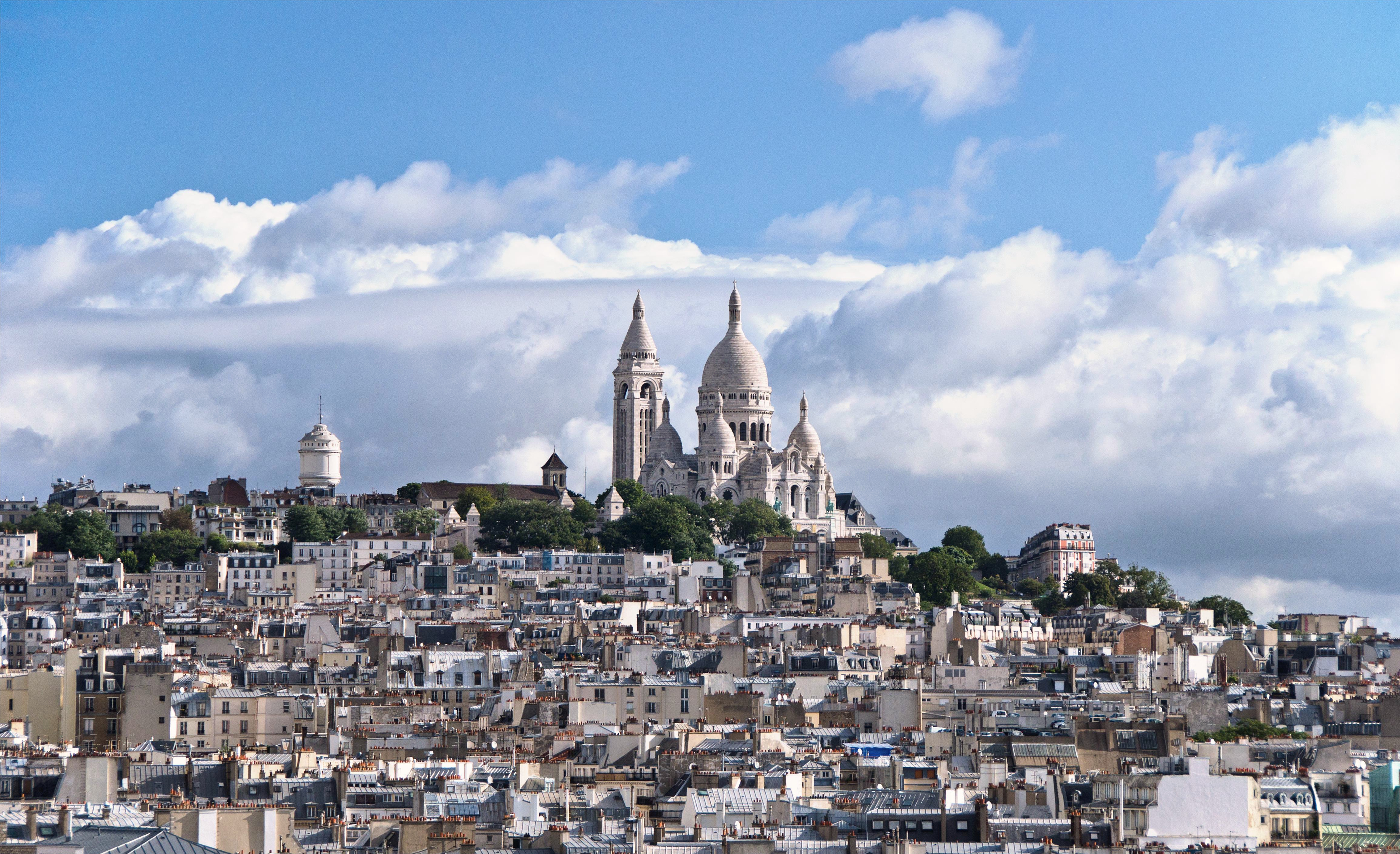 View above Montmartre and Basilique Sacré-Cœur from the top of Printemps Haussmann in Paris, France.